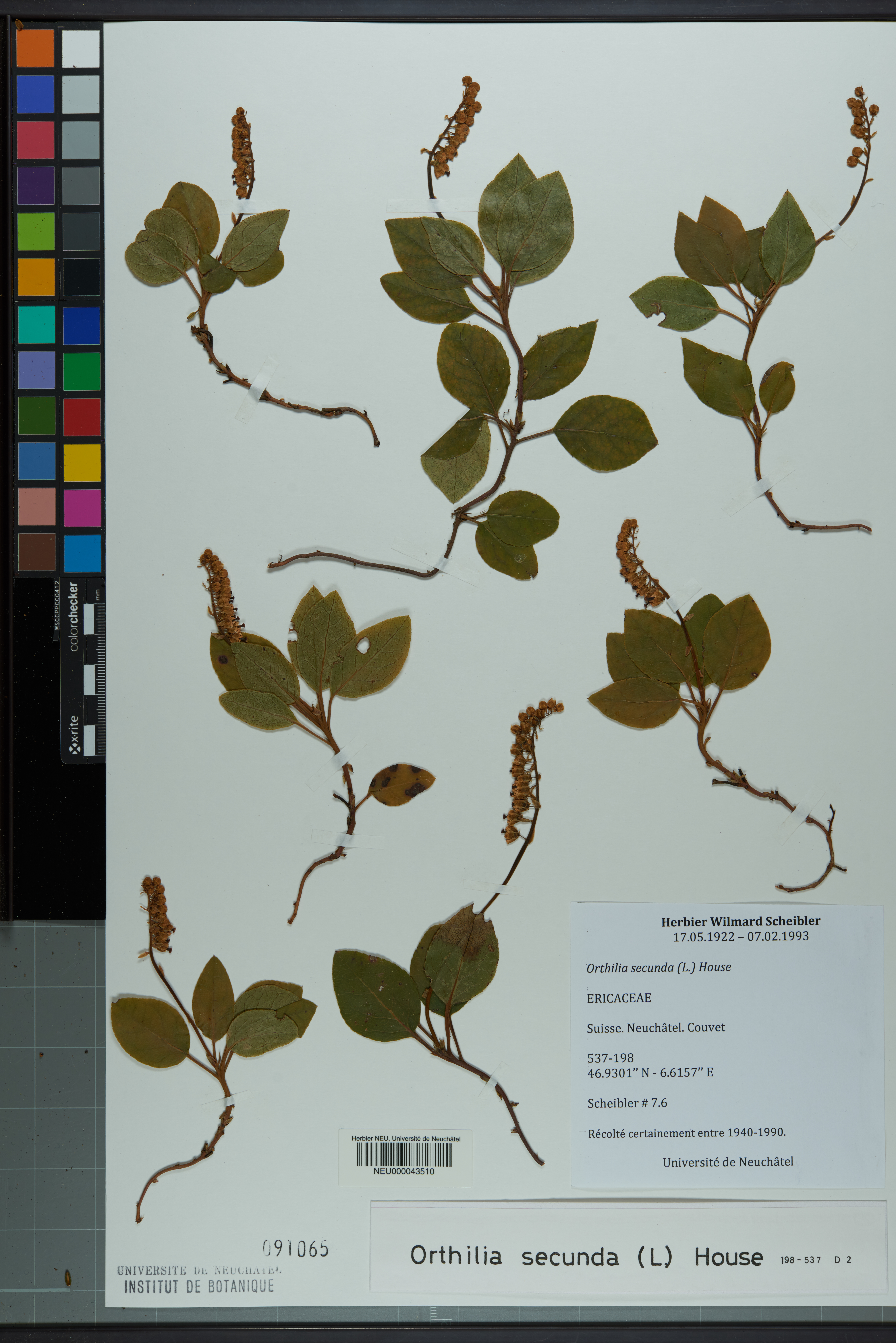 Dried pressed specimen of Orthilia secunda